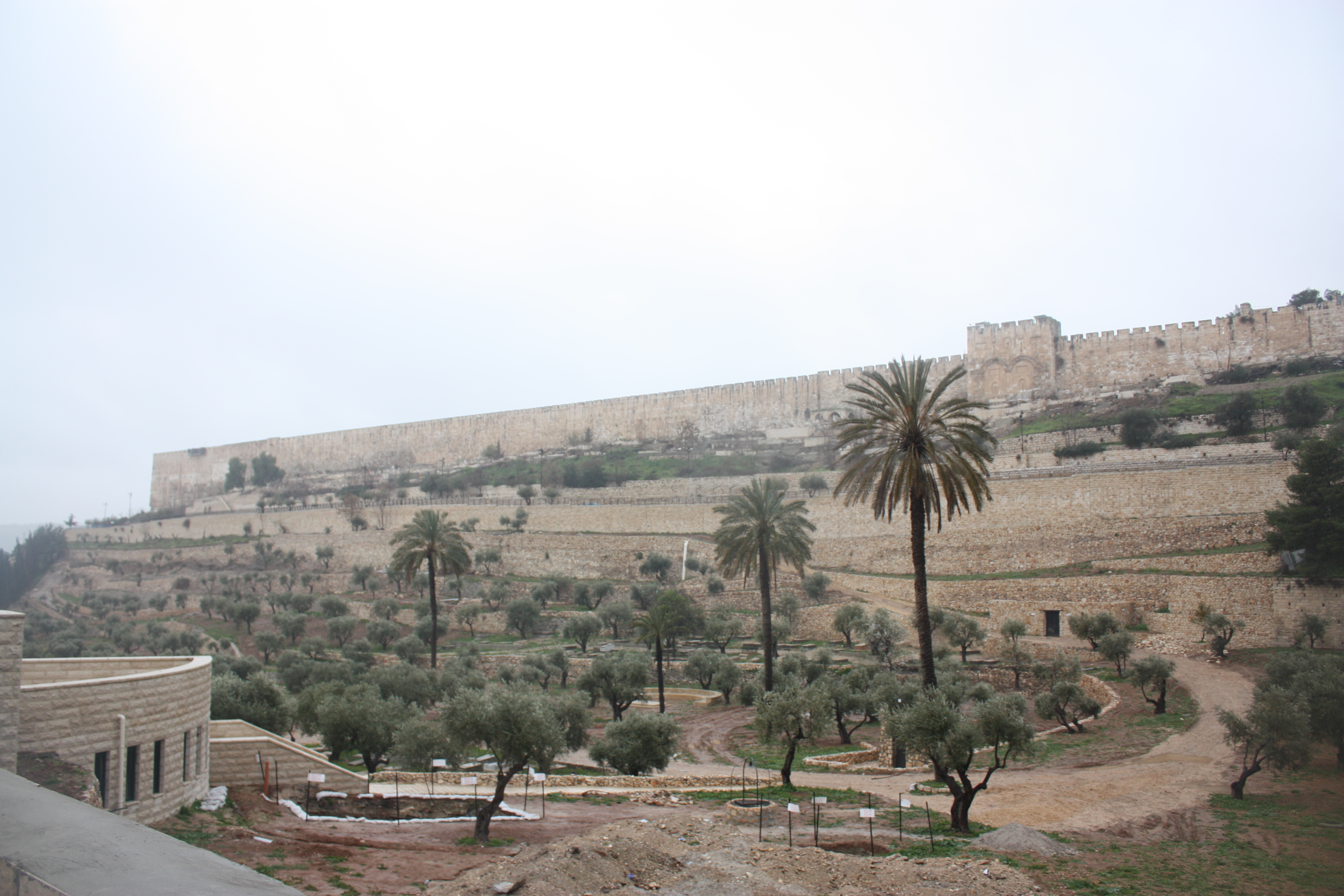 Eastern wall of the Temple Mount, including The Golden Gate, and a Catholic cemetery from near Gethsemane, Jerusalem.